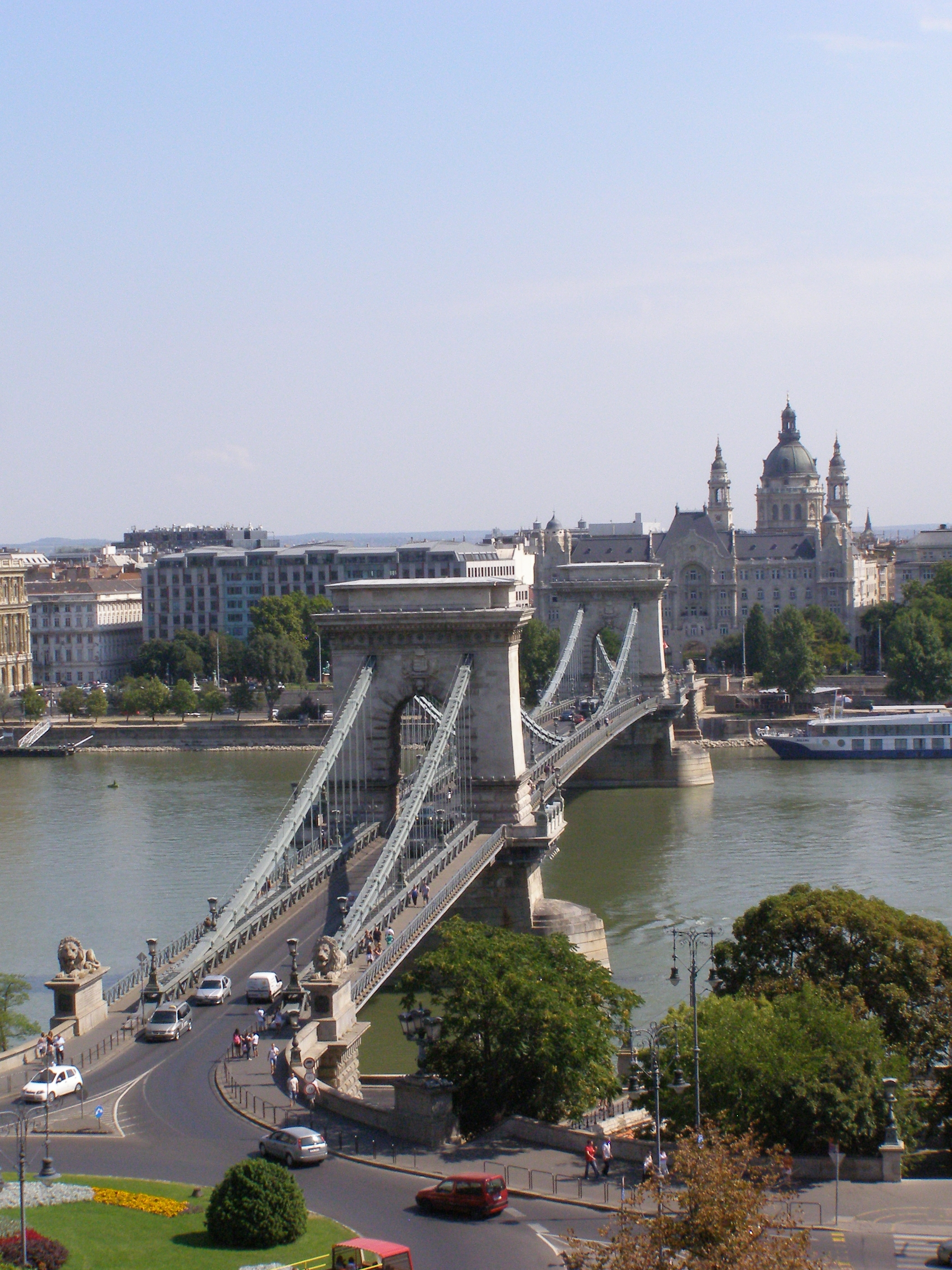 Budapest - view from the Buda Castle to the Chain Bridge and the St. Stephen basilica